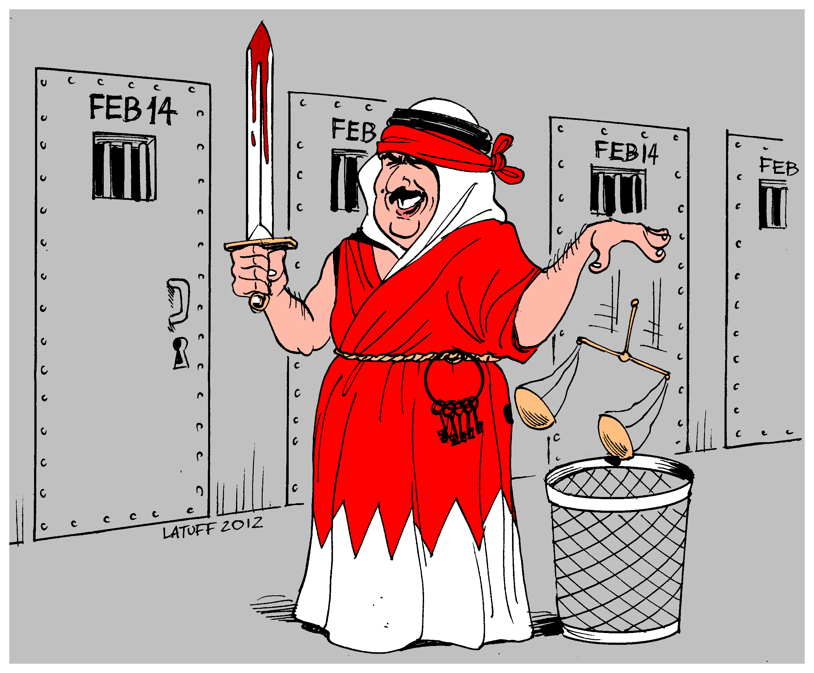 Cartoon by Carlos Lattuf labeled "The lady justice of Bahrain".